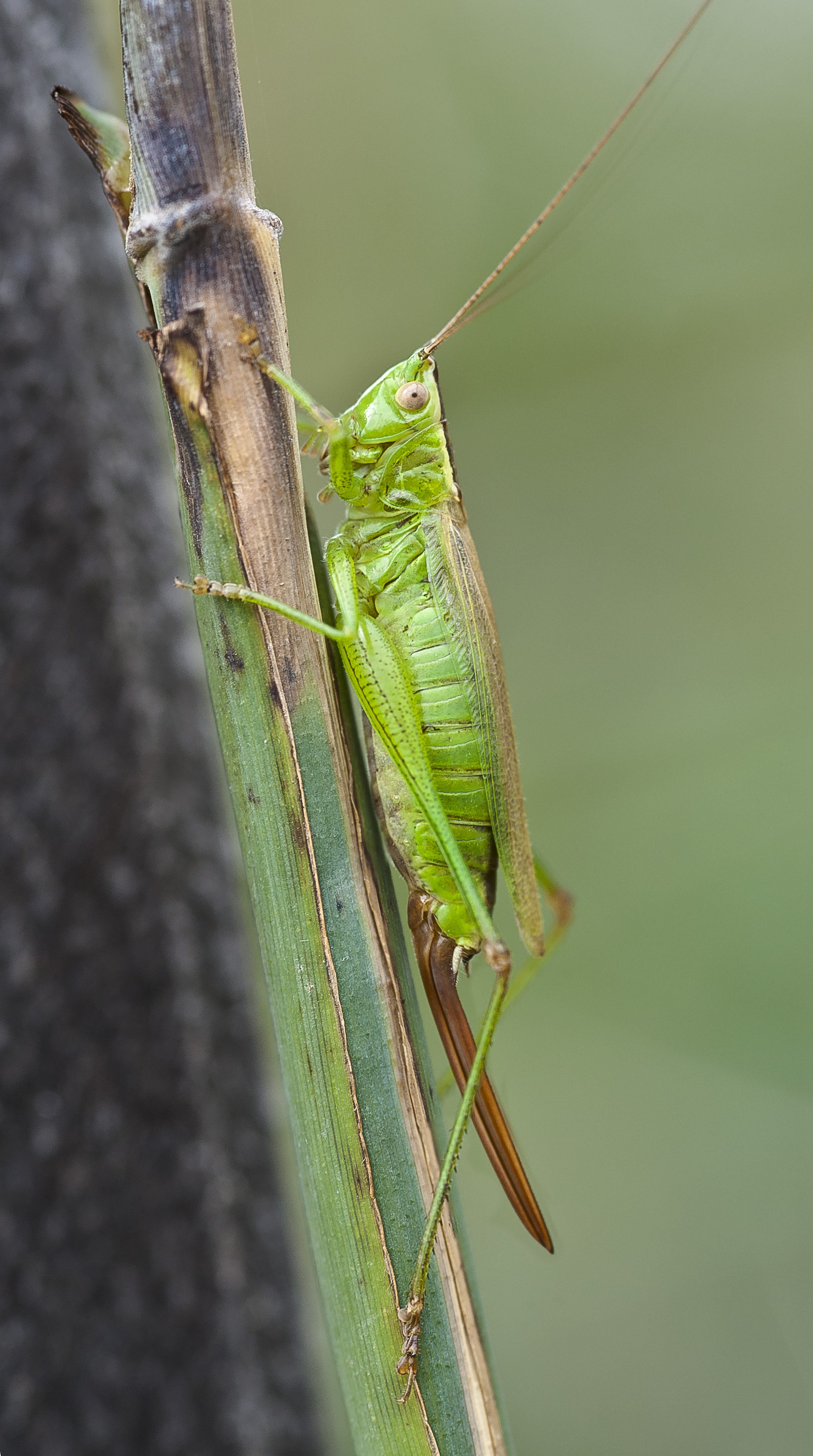 Conocephalus fuscus, f, Federsee, Southern Germany. Thanks to the members of Entomologie.de for the identification. Focus stack of 2 images.